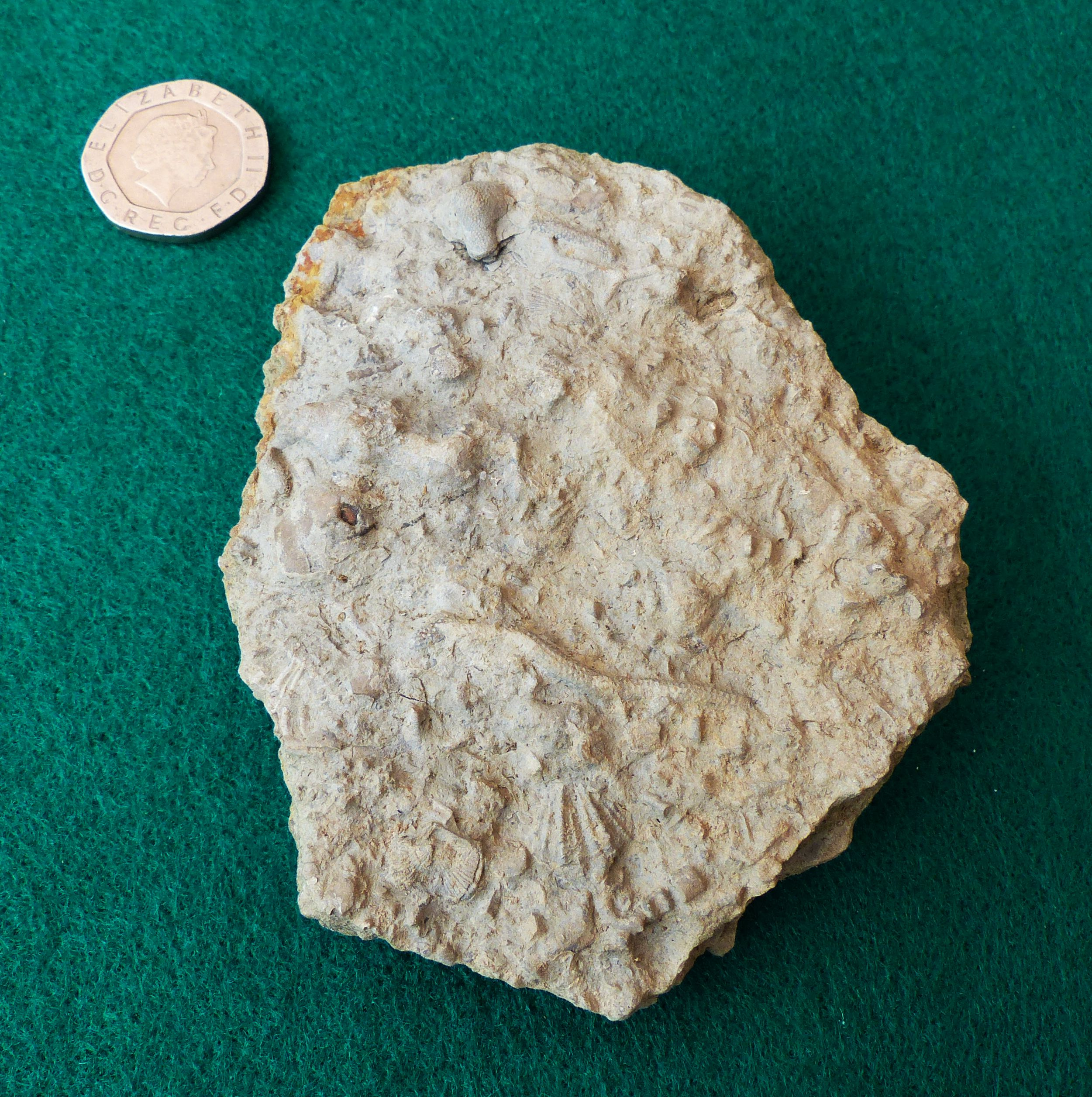 Silurian sea bed fossils collected from Wren's Nest Nature Reserve, Dudley UK. June 2014.